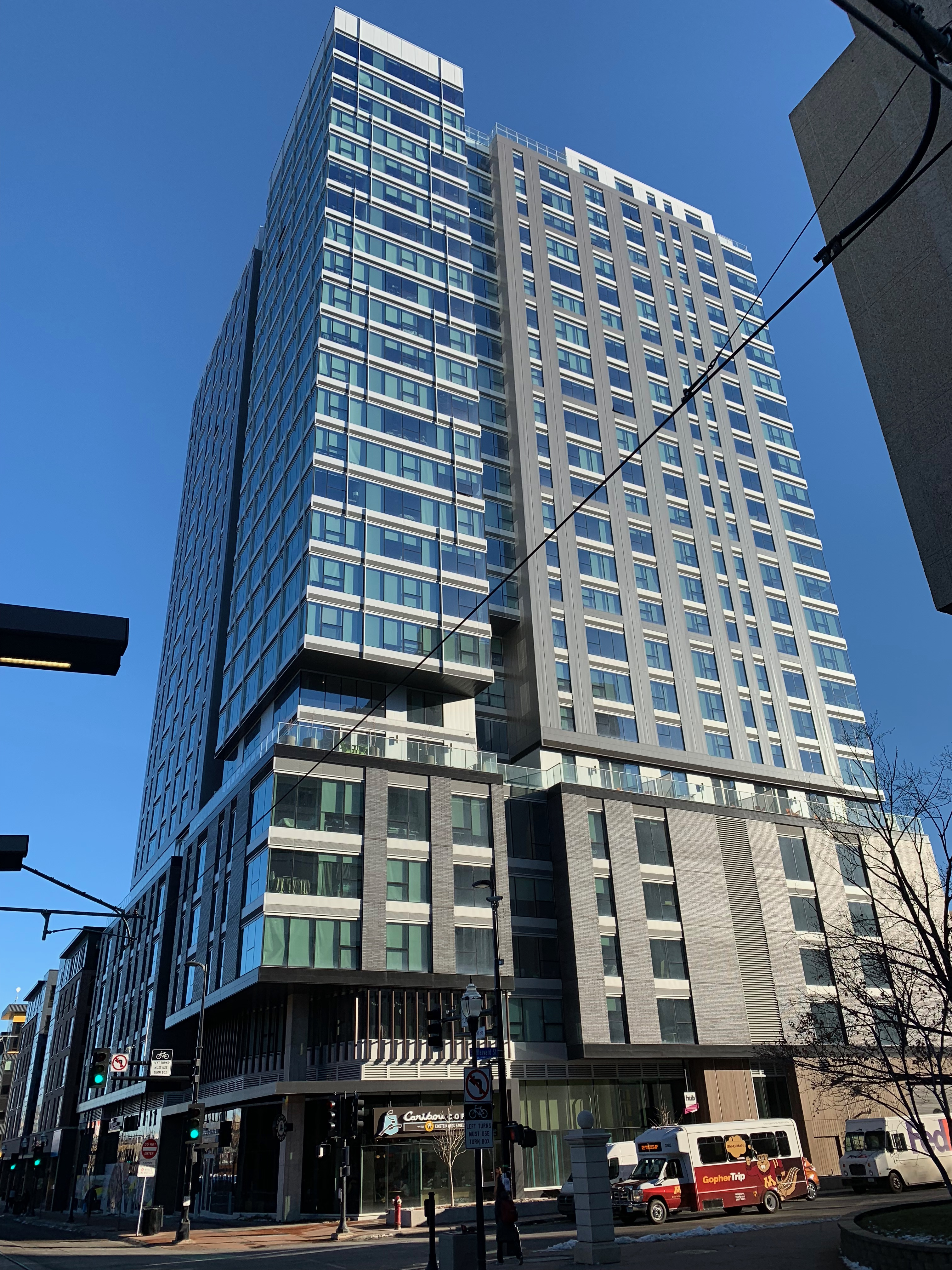 A color photograph of The Hub (Minneapolis, Minnesota) in Minneapolis.